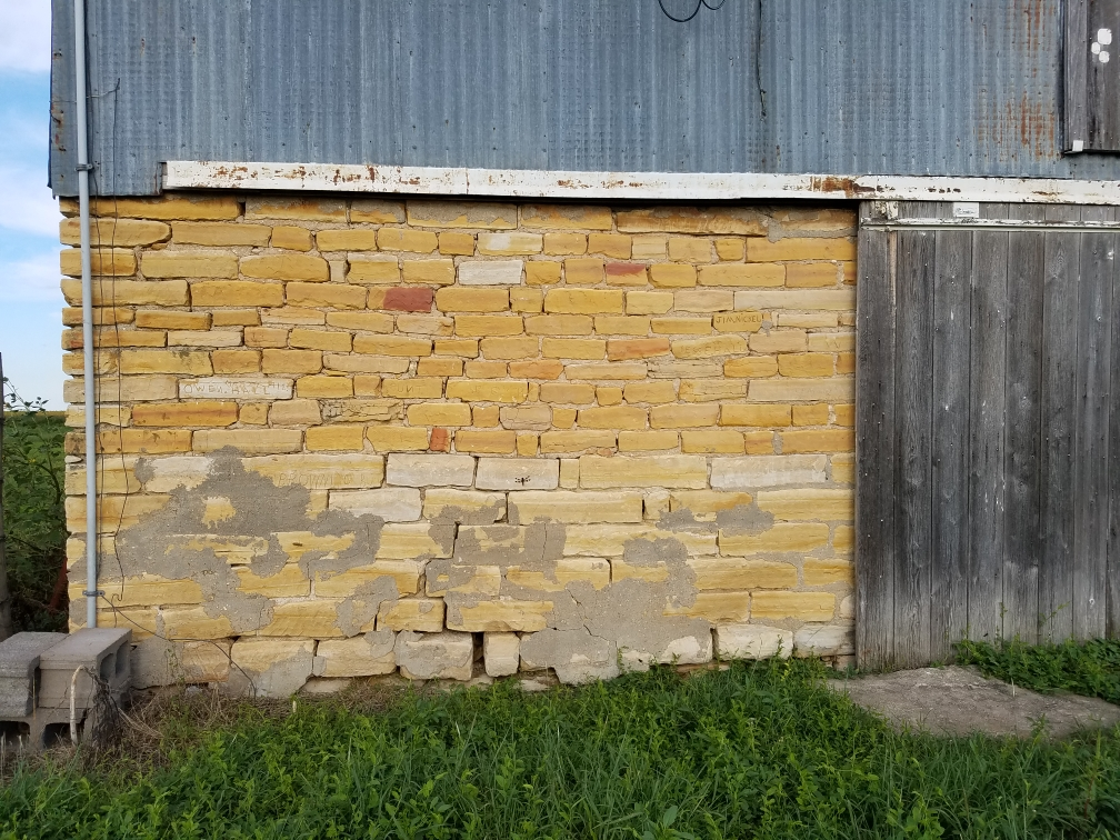 Shed wall constructed of both Fencepost limestone (six lowest visible courses) and Fairport Chalk (the upper courses) Rather than having been quarried with feather and wedge (note missing drilled splitting holes), collected weathered slabs were deeply scored with a saw for splitting. "The pictured part of the wall was dressed smooth to allow the sliding door to open."[1]